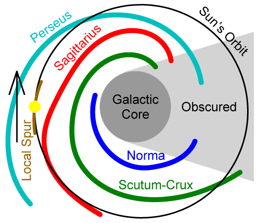 → Milky Way Spiral Arm (other versions)